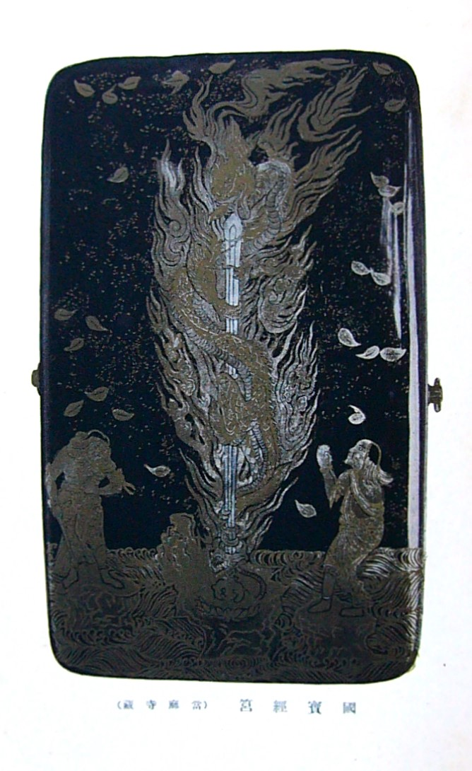 Sutra box decorated in maki-e with Kurikara Dragon Lid decorated with Kurikara dragon ( Docesis of Fudō Myōō (Acala)) flanked by two attendants: Kongara Dōji) and Seitaka Dōji Heian period Black lacquer, maki-e. 31 cm (length) x 19 cm (width). NaraTaima-dera, Nara, Japan